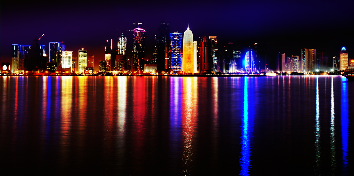 Doha, Qatar. Skyline at night. Showing the expansion of the business district.